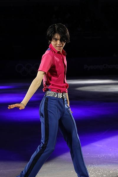 Gala exhibition at the 2018 Winter Olympics